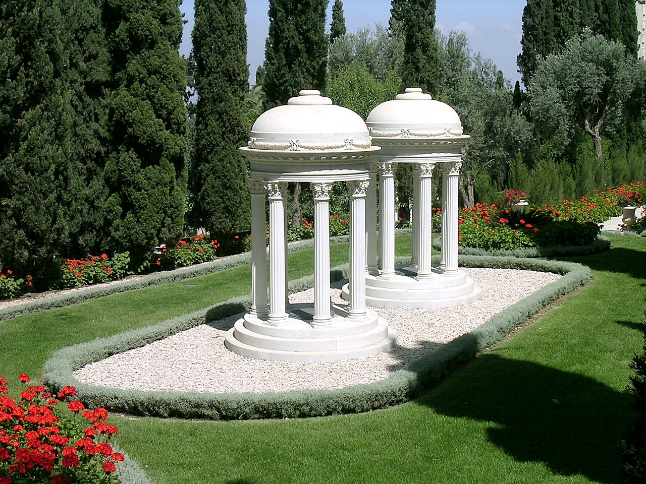 The resting places of Navváb, the wife of Bahá'u'lláh, and Bahá'u'lláh's son Mírzá Mihdí